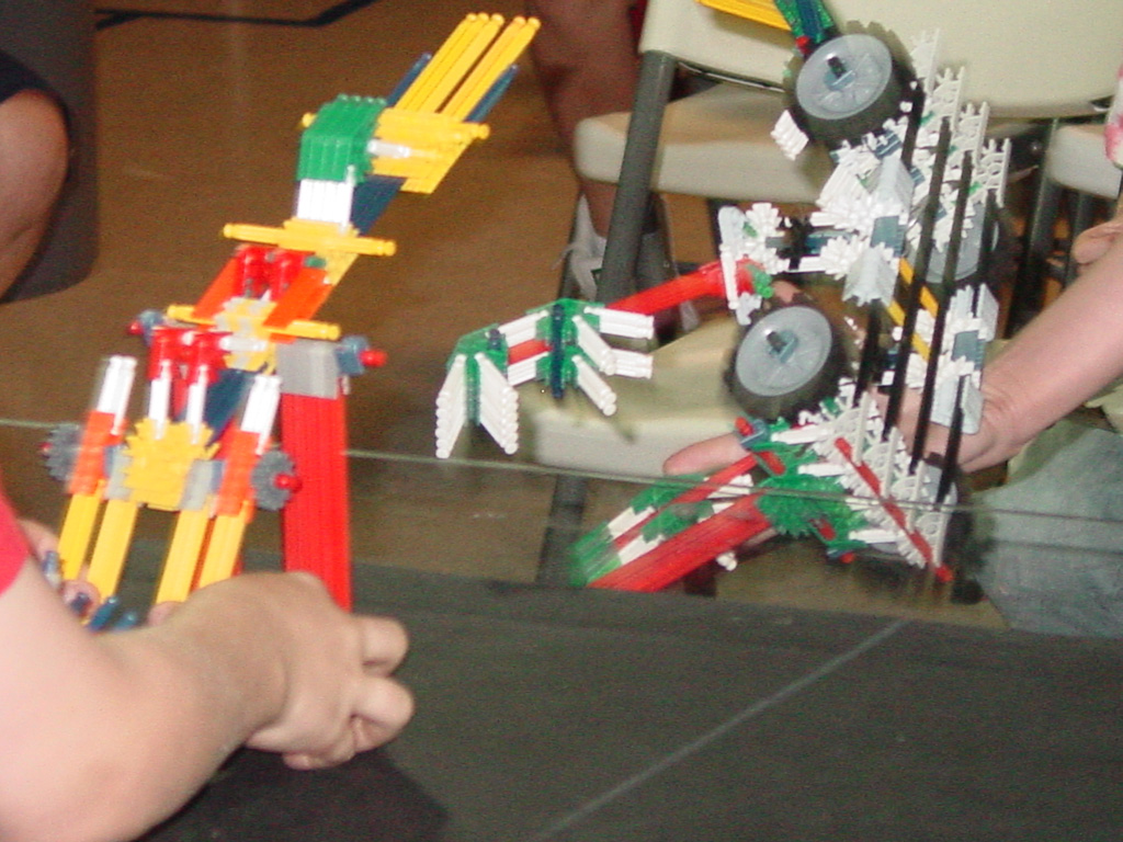 Own photograph, taken July 2008 Source